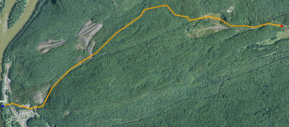 Satellite map of Black Creek, the second and northernmost left bank tributary of the Susquehanna River named Black Creek in Luzerne County, Pennsylvania, in the United States.[1] The red dot is the source and the blue dot is the mouth. It is approximately 2.6 miles (4.2 km) long and flows through Conyngham Township. The other Black Creek (Nescopeck Creek} is also a left bank tributary of the Susquehanna River via Nescopeck Creek entering the river in Nescopeck, PA, a Pennsylvania borough (town) in Luzerne County, Pennsylvania. Black Creek was entered into the Geographic Names Information System on August 2, 1979. Its identifier in the Geographic Names Information System is 1169696.[1] The elevation near the mouth of Black Creek is 482 feet (147 m) above sea level.[1] Data available from U.S. Geological Survey, National Geospatial Program. According to the National Map Viewer (Topographic mode), by inspection: the elevation of the creek's source is between 840 and 860 feet (260 and 260 m) above sea level. The lowest elevations in the watershed are approximately 500 feet (150 m) above sea level and they occur near the Susquehanna River.